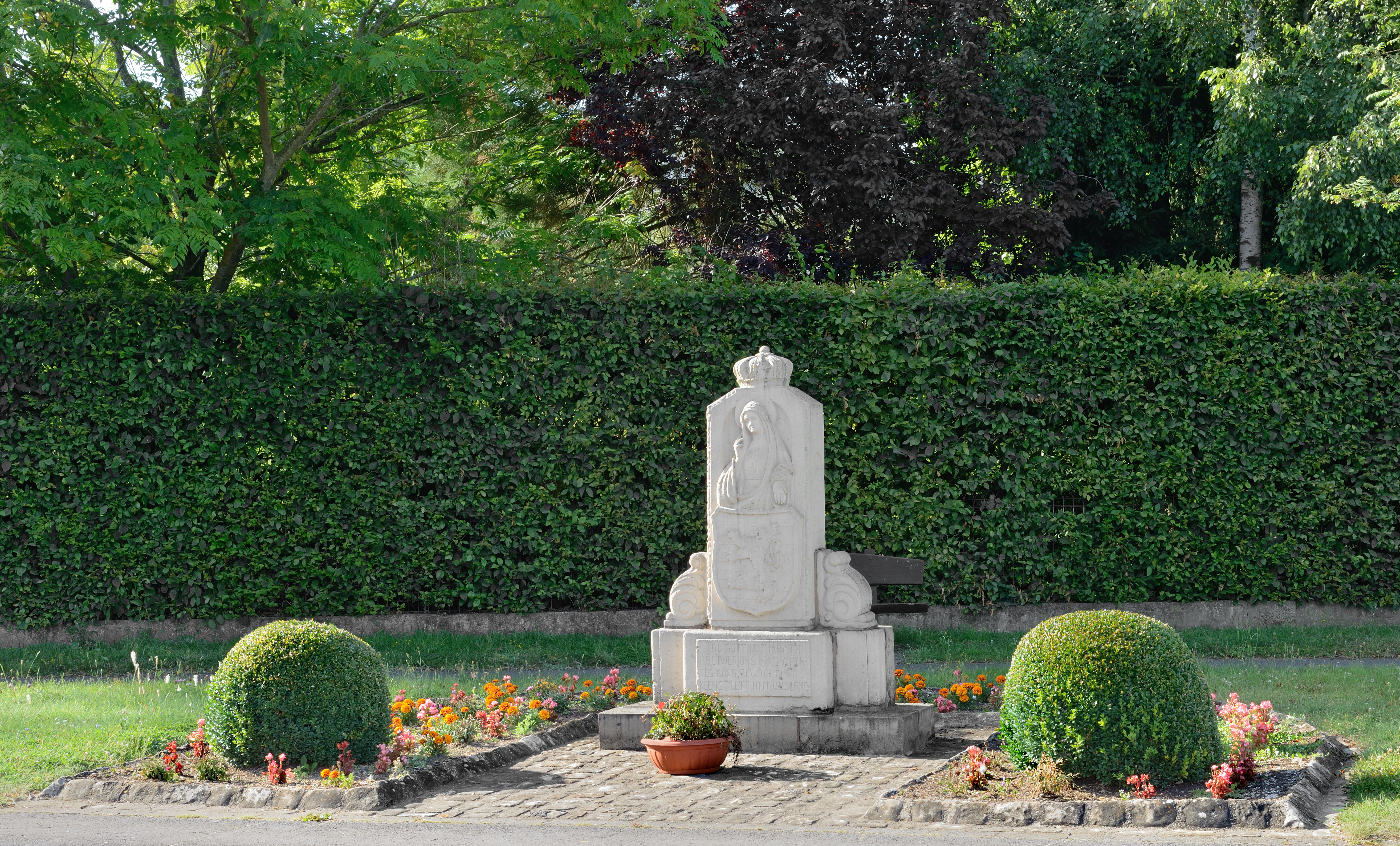 Luxembourg, Beidweiler: 100 years Independence monument of 1939.